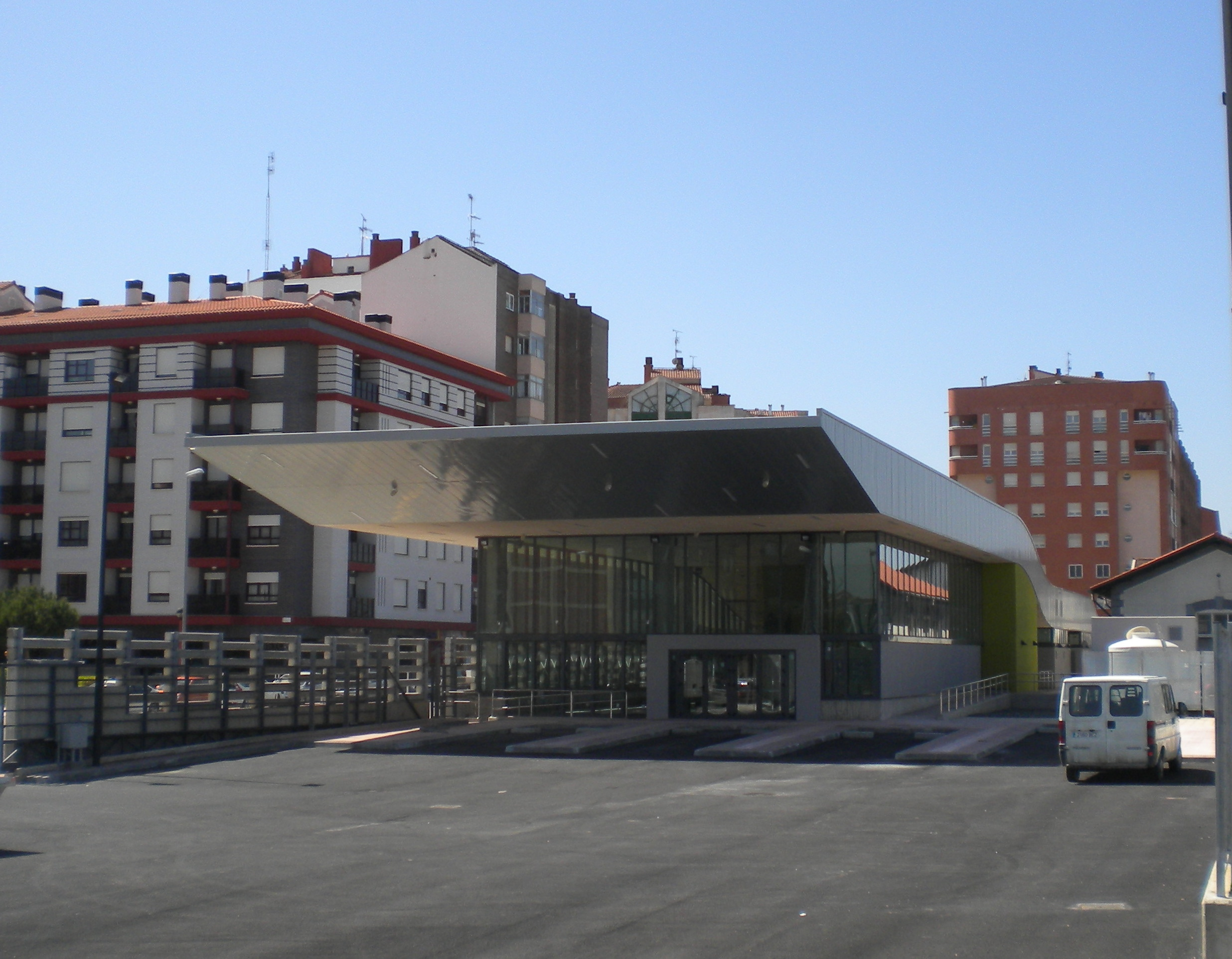 Bus station of Miranda de Ebro (Castilla y León, Spain)